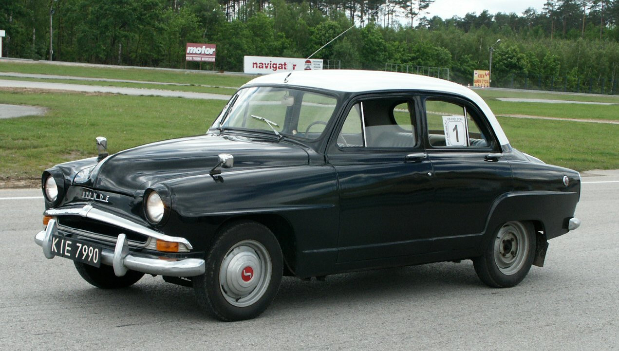 Simca Aronde Elysée (probably 90A from 1955 on), in Kielce Race Track, Poland